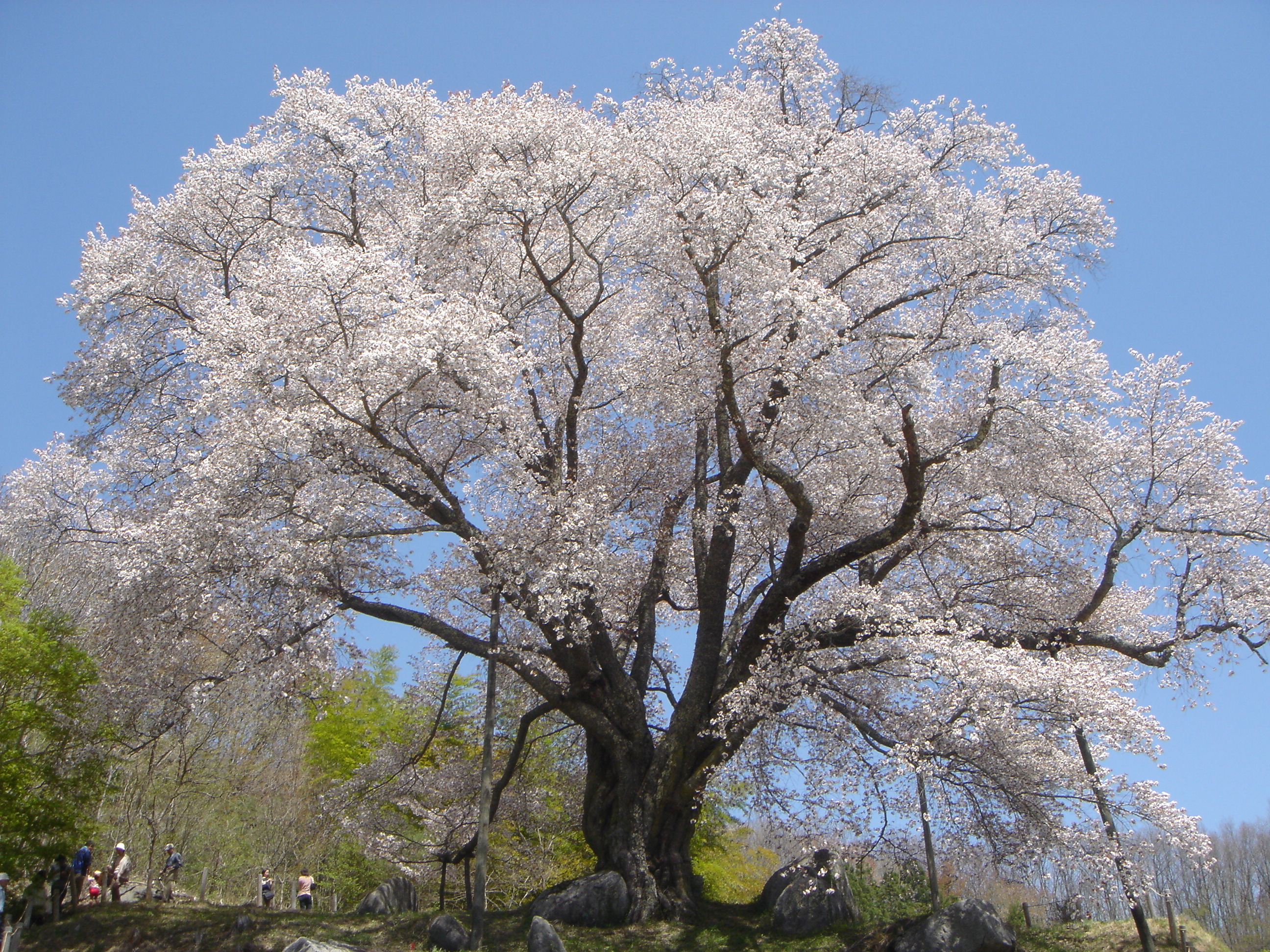 The cherry blossom "Koshidai-no-Sakura" in Furudono town, Fukushima Prefecture 福島県古殿町、越代（こしだい）の桜。